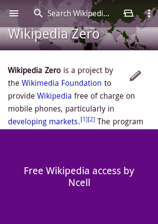 Wikipedia Zero via Ncell Mobile Network Operator..